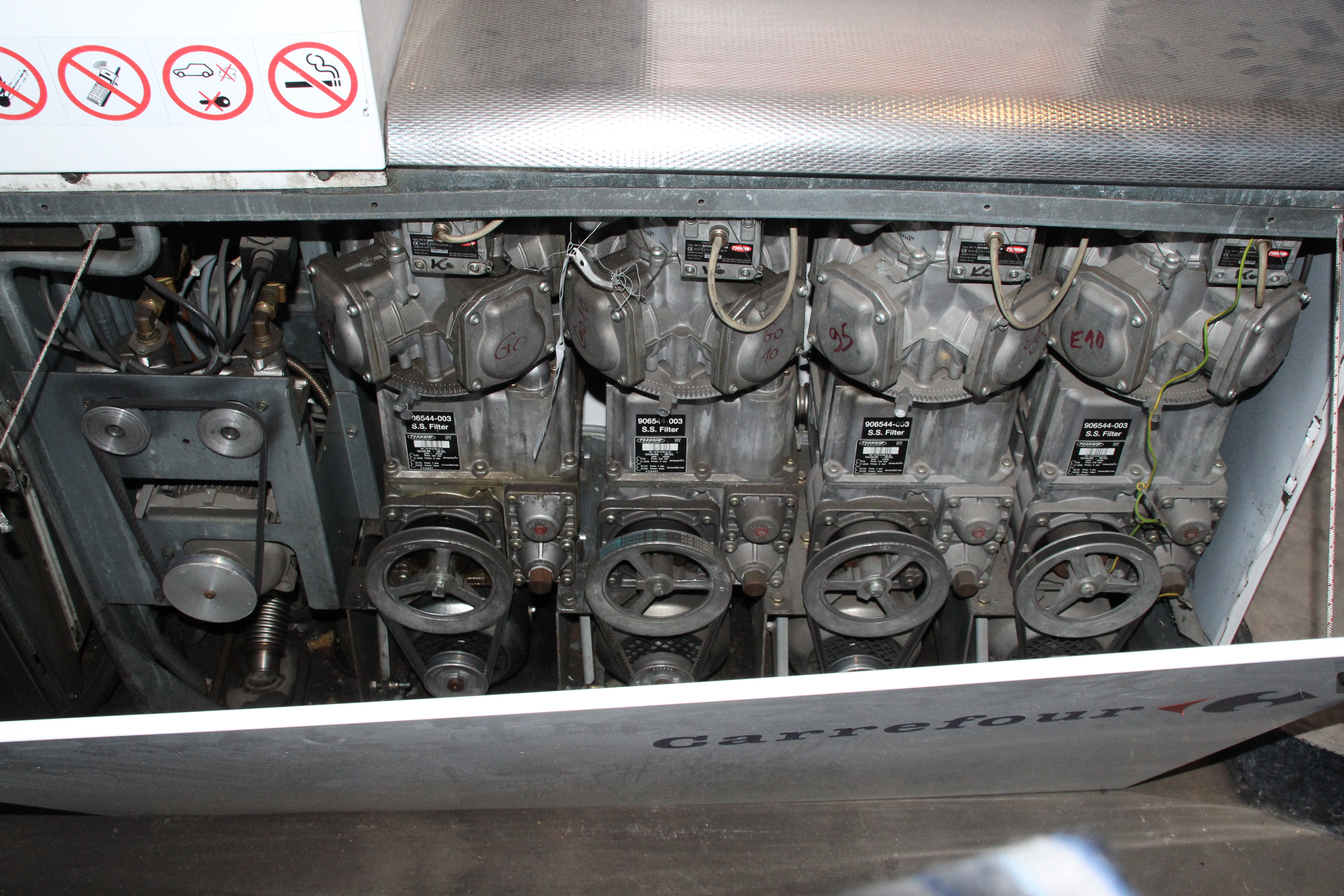 Aire de la Courneuve Carrefour petrol station on the A1 highway near Paris, France.